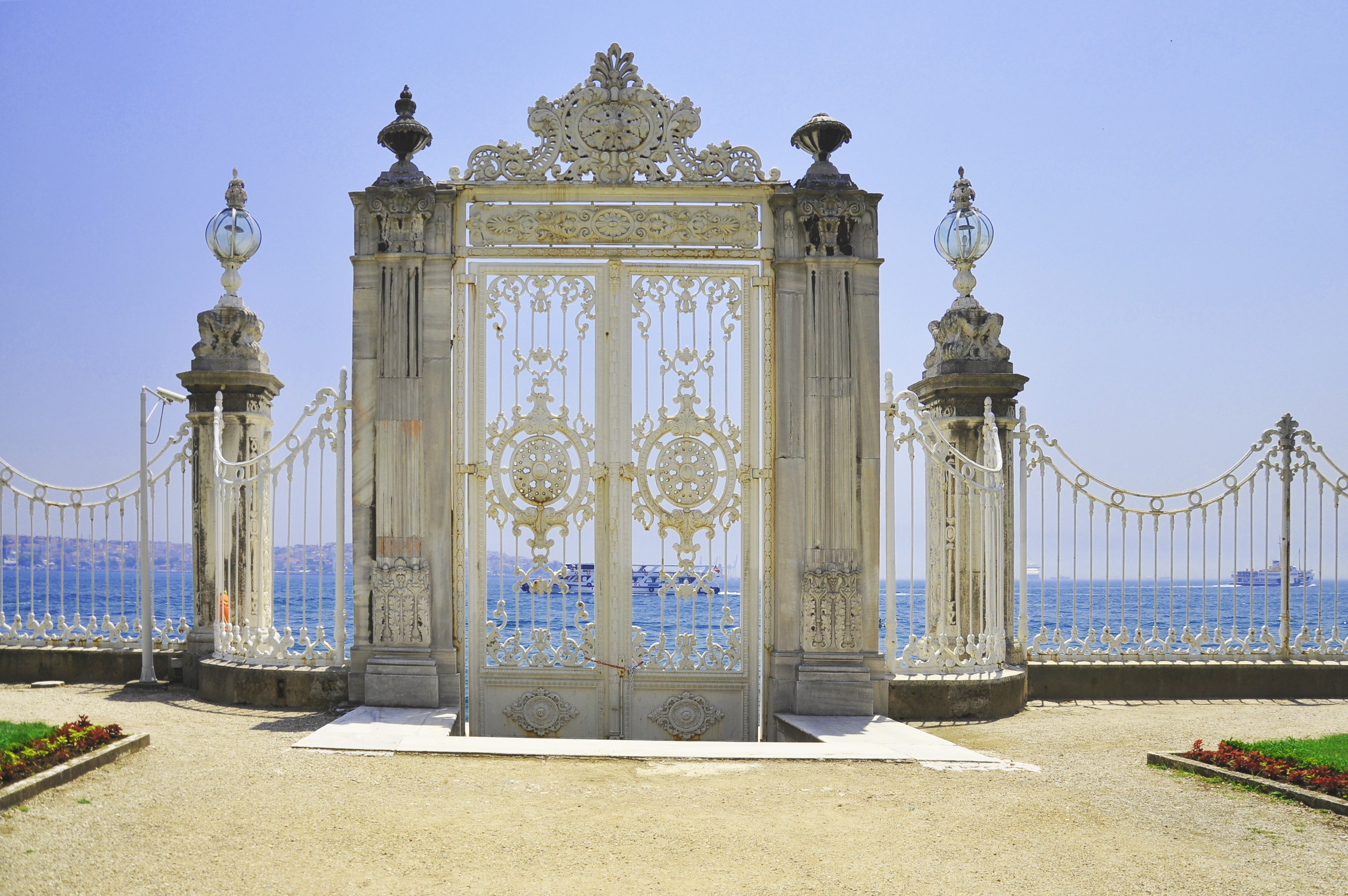 Gate of Dolmabahçe Palace over the Bosphorus in Istanbul, Turkey.